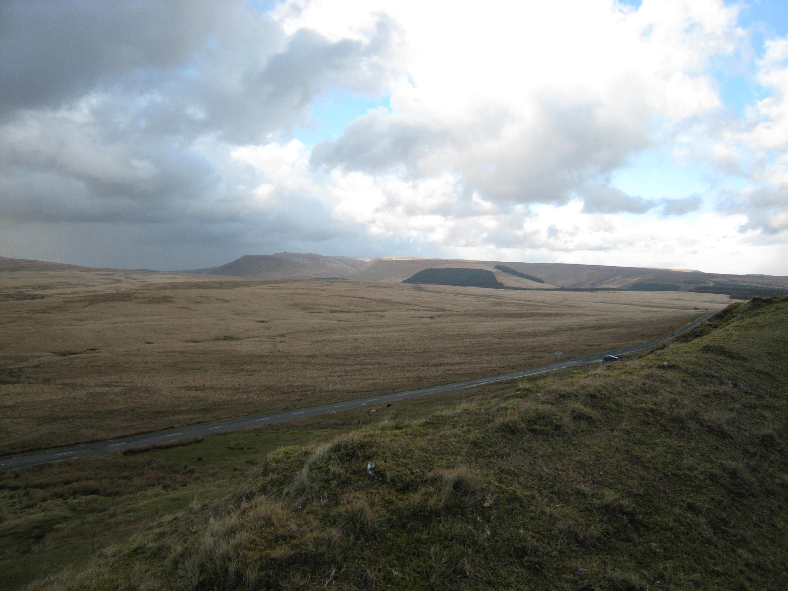 The A4059 runs through the Brecon Beacons on a cloudy day.